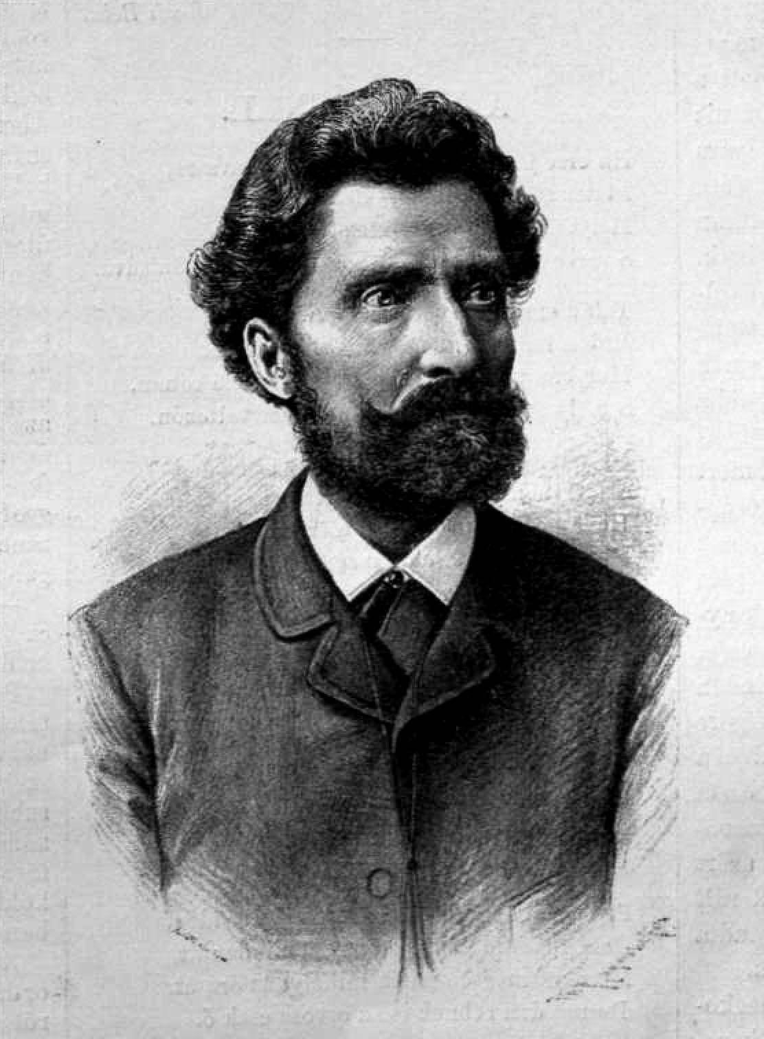 Portrait of the linguist Gábor Szarvas